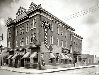 The Albany Hotel on 20th Street West and Avenue B South, in the Riversdale neighbourhood of Saskatoon, Saskatchewan, Canada.